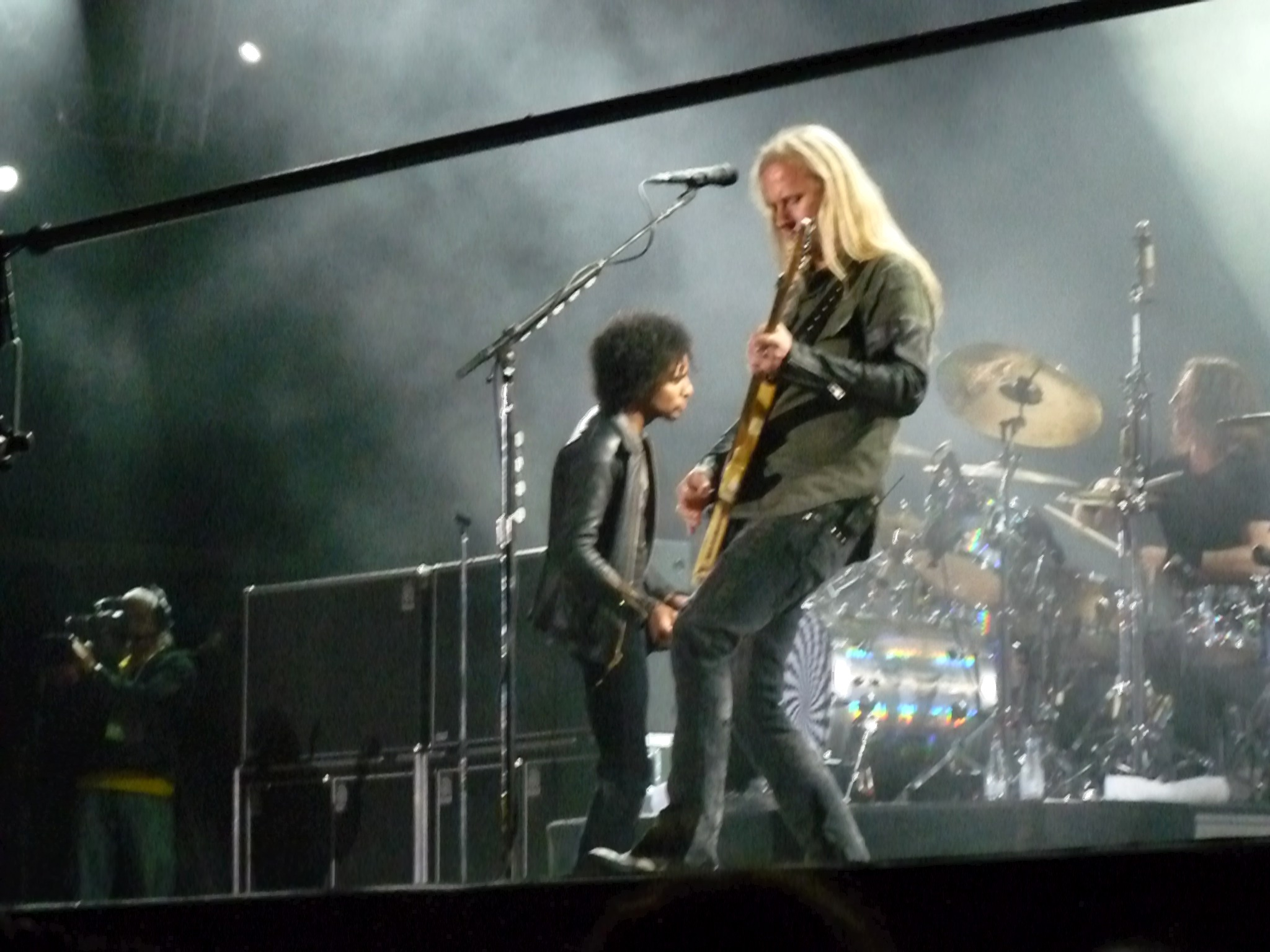 Alice in Chains in Bilbao, 2010